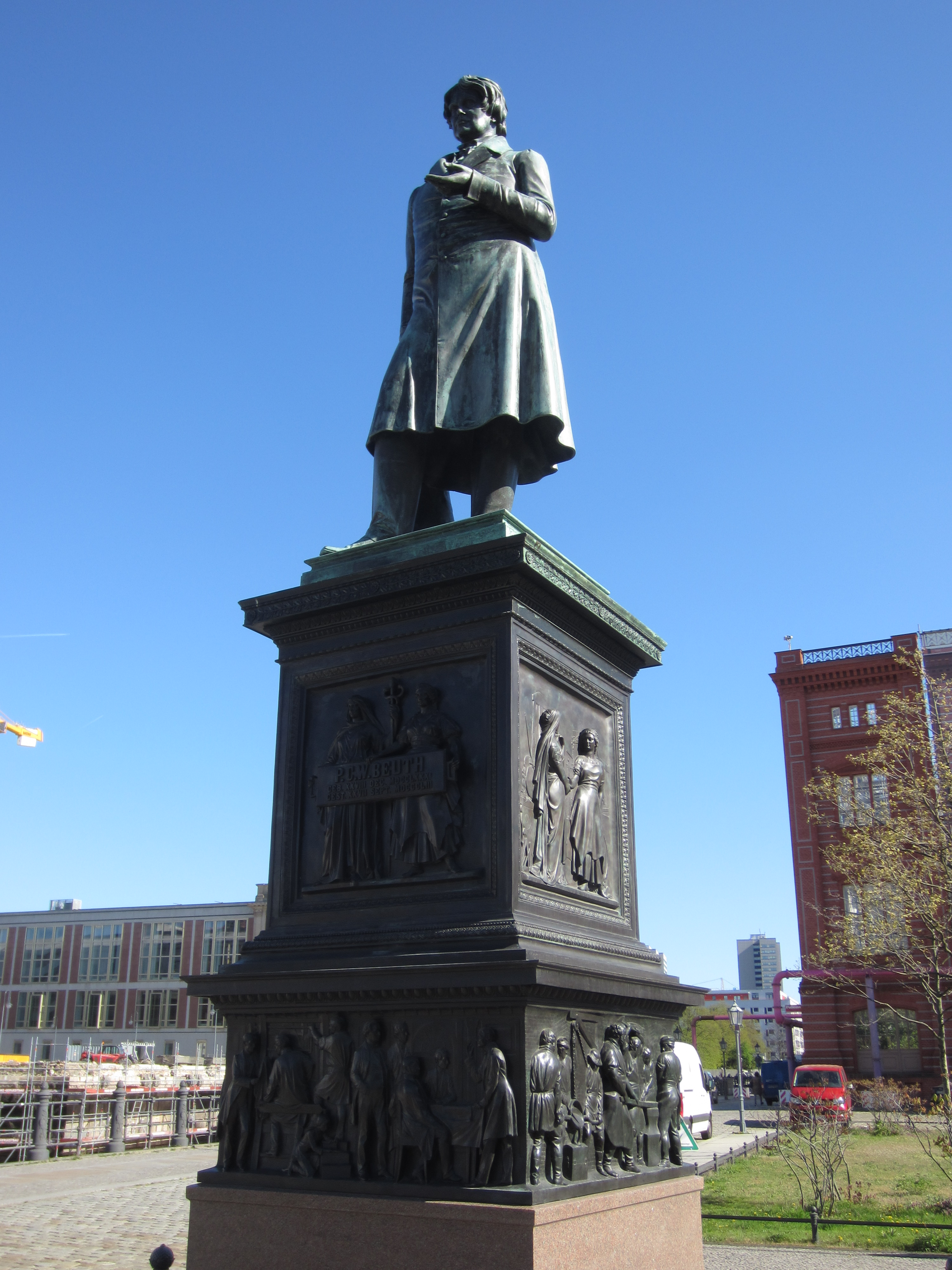 Berlin, Germany (April 2016)